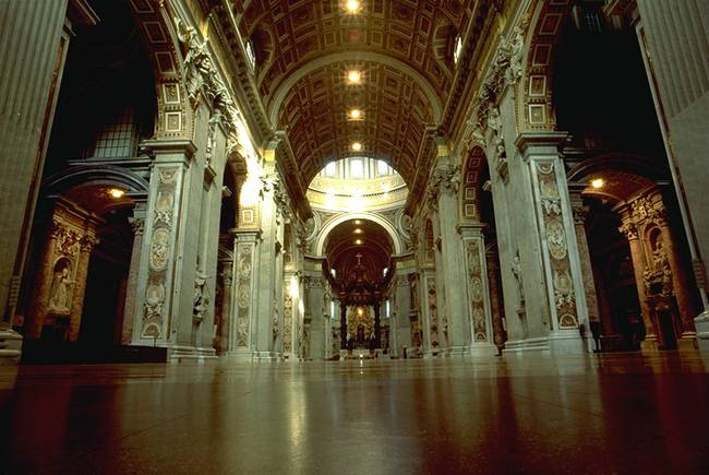 Interior of the Basilica di San Pietro